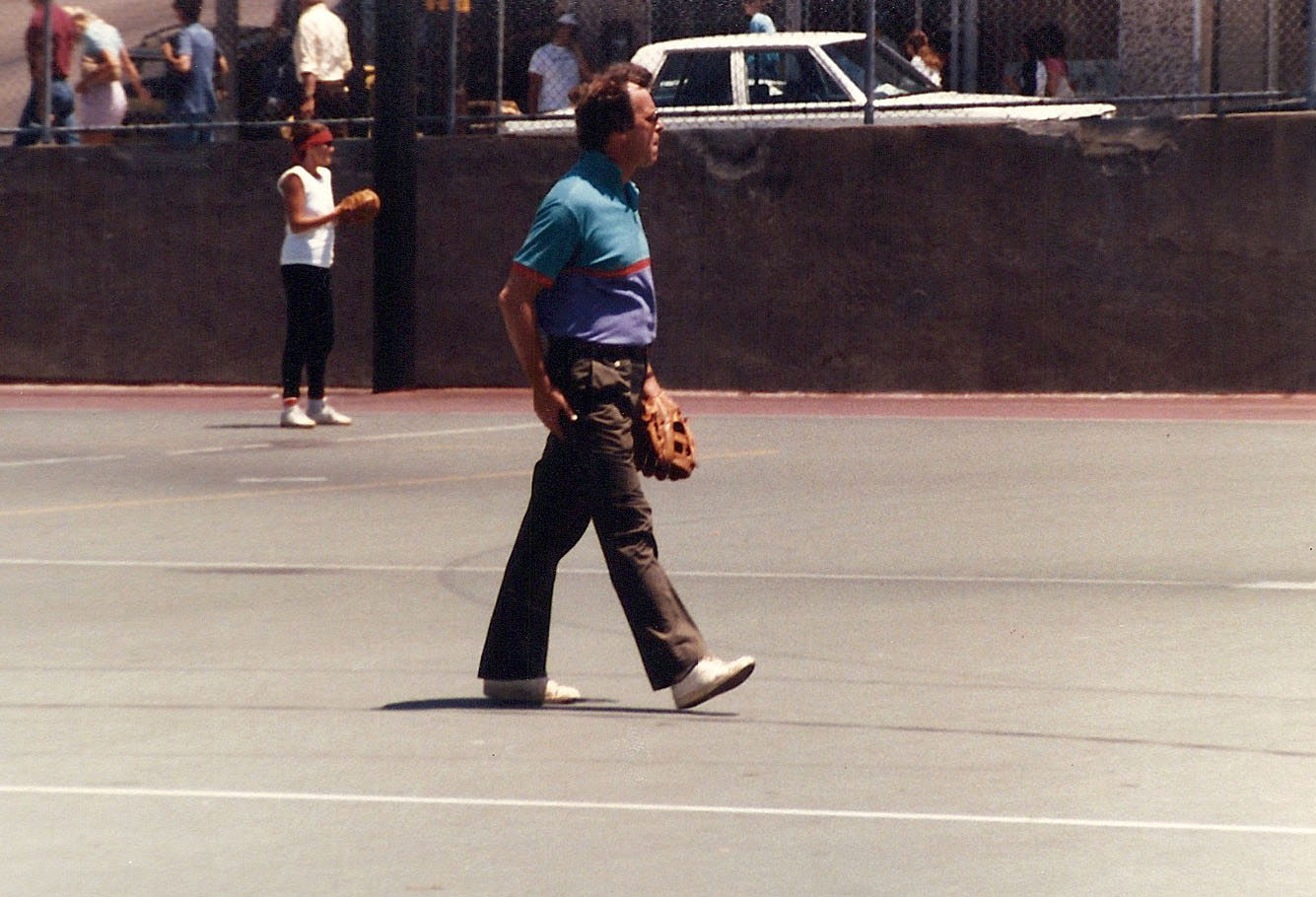 In July, 1984 when the Democratic National Convention was held in San Francisco, a challenge softball game took place at North Beach Playground (now known as Joe DiMaggio Playground) in San Francisco's North Beach. It pitted Les Lapins Sauvages, the house team for the Washington Square Bar and Grill (featuring Herb Caen at first base) against a pick-up team of national media notables, including Tom Brokaw (Catcher), Bryant Gumble (Third Base), Peter Jennings (Center Field) and Jeff Greenfield (Pitcher). Mario Cuomo, then Governor of New York showed up and, in a spirit of bipartisanship, took an at bat for both sides. He ended up getting a hit and scoring the winning run for the Lapins.